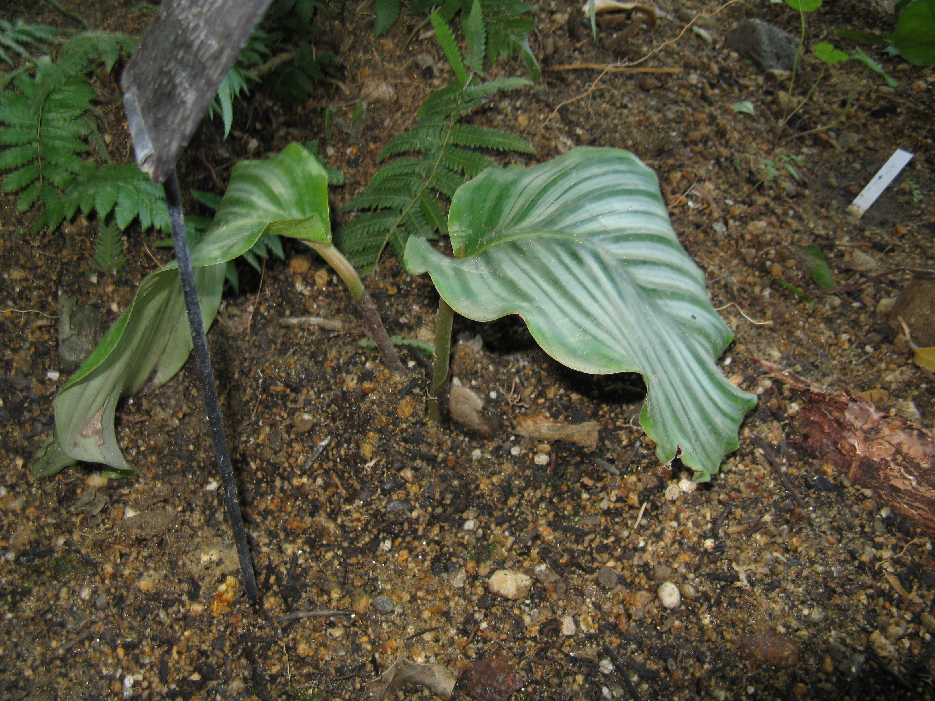 Calathea rotundifolia Place:Osaka Prefectural Flower Garden,Osaka,Japan